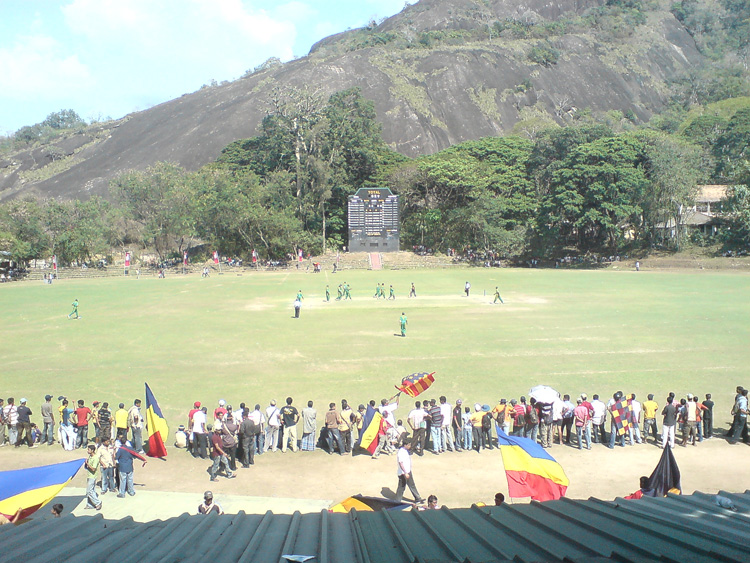 big match between Maliyadeva-St.Annes